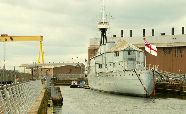 HMS "Caroline", Belfast The former WW1 cruiser is now used by the Belfast RNR for training. She is not in original condition having had additional accommodation added but, it is said, should be restorable as a museum piece if (or when) withdrawn.